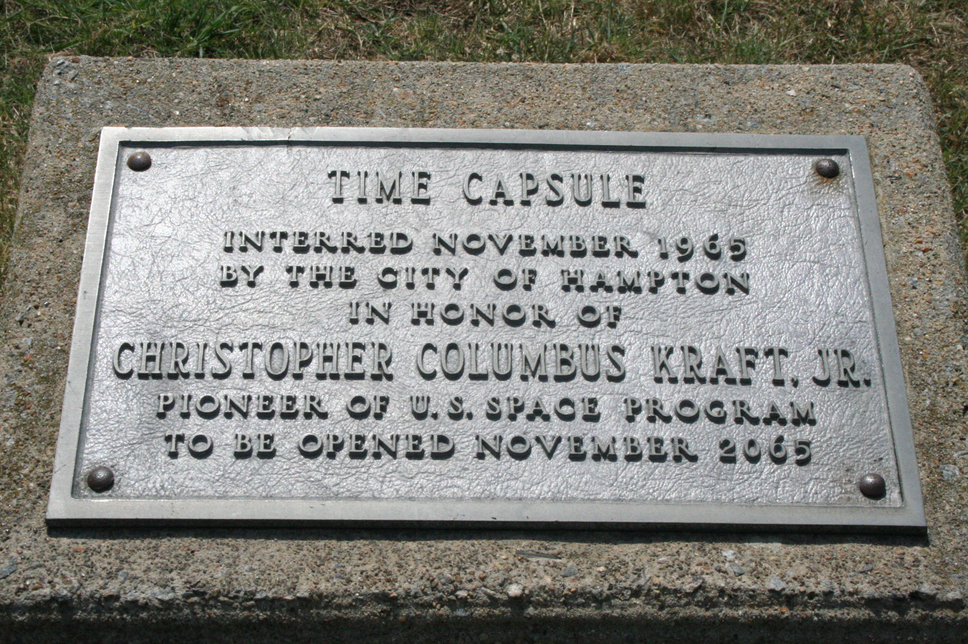 plaque marking location of time capsule in Air Power Park in Hampton